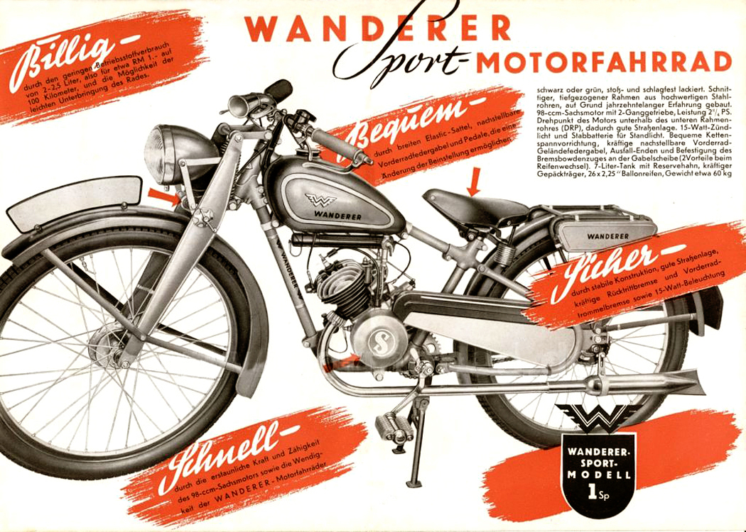 Germany motobike Wanderer-1Sp, advertising flyer 1938